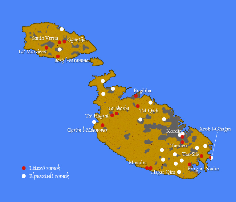 Neolithic temple sites in Malta (feel free to adapt in other languages!)